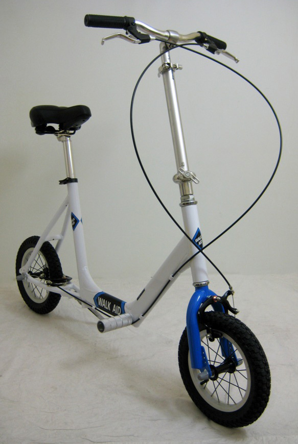 The Walking Aid Scooter serves as a mobility aid for people who have trouble walking due to back or lower extremity discomfort. This seated scooter is appropriate for people who have normal balance but pain during standing or walking.